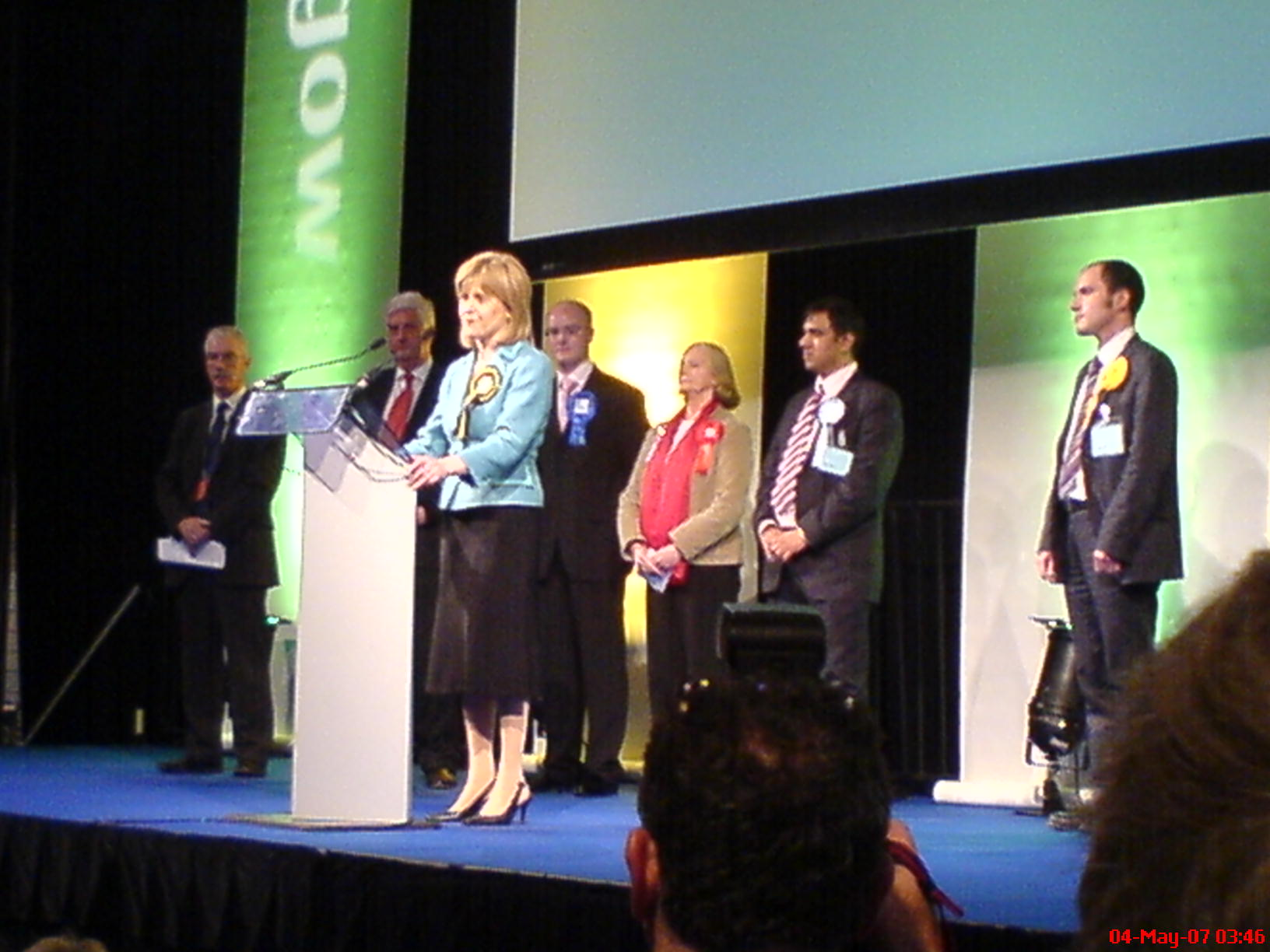 A picture I took at the Scottish Exhibition and Conference Centre on 4 May 2007 of Nicola Sturgeon giving her acceptance speech after winning the Glasgow Govan Seat from Gordon Jackson. Attribution to be given to Patrick McAleer